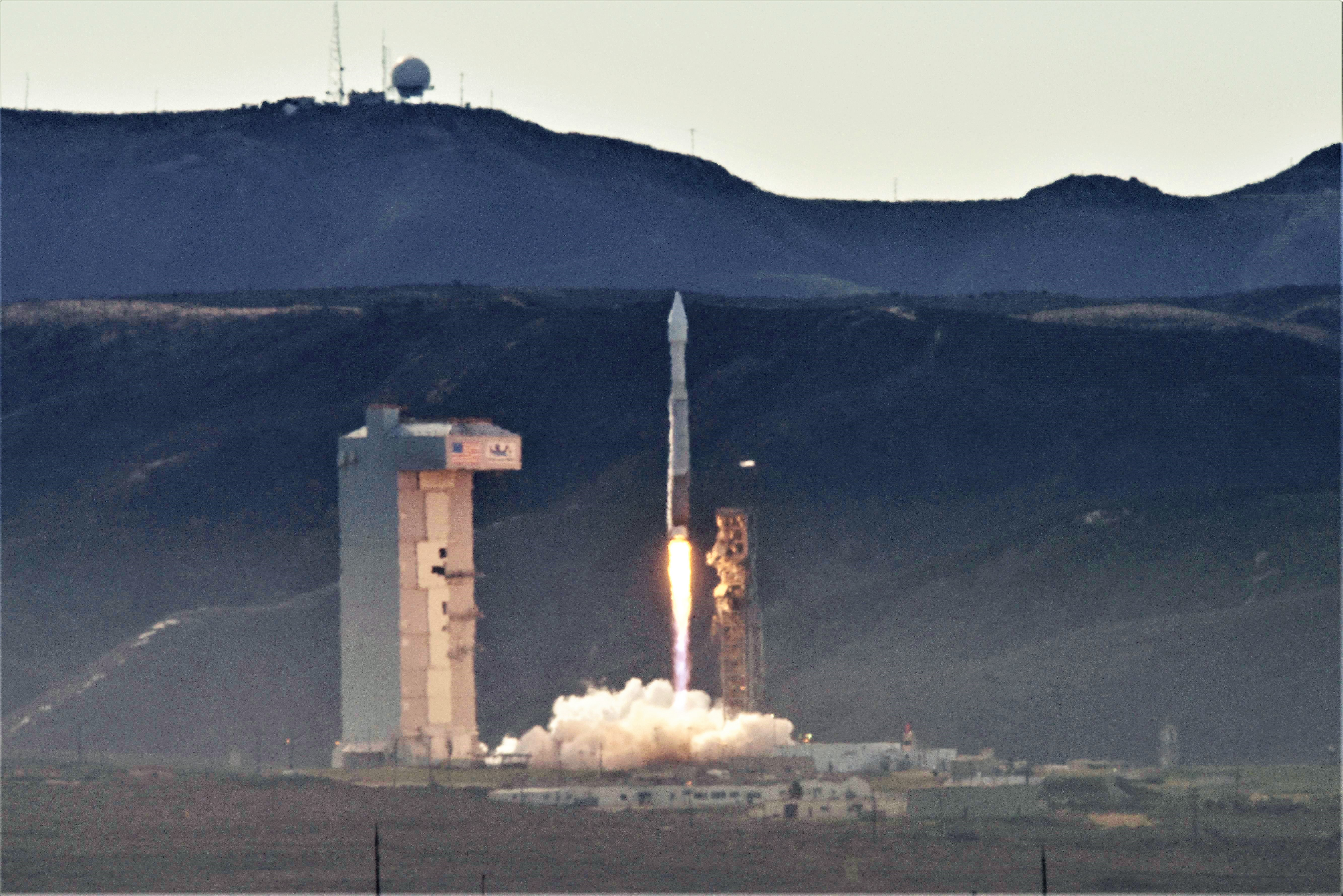 The WorldView-4 satellite on a United Launch Alliance Atlas V rocket, provided by Lockheed Martin Commercial Launch Services, launches from Space Launch Complex-3, Nov. 11, 2016, Vandenberg Air Force Base, Calif.